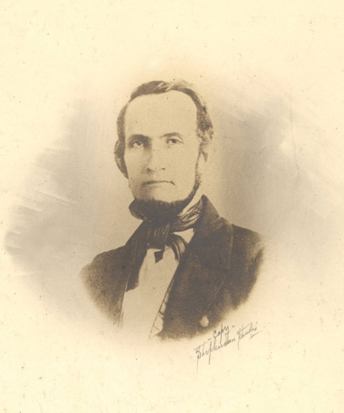 Portrait of Stephen Fowler Hale